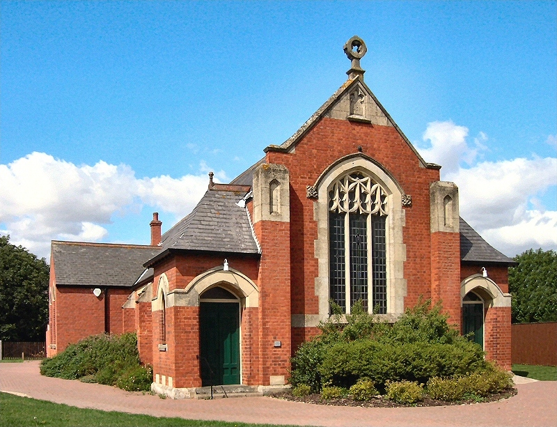 Whilst this building dates from 1926 the Methodist have had a presence in Navenby for much longer. A small Weslyean Methodist chapel was established about 1830 and completely rebuilt in 1840. The Wesleyan Reformers also met in Navenby in the Temperance Hall, built in 1852. A brief summary of Methodism in Lincolnshire can be found of the on the set page.